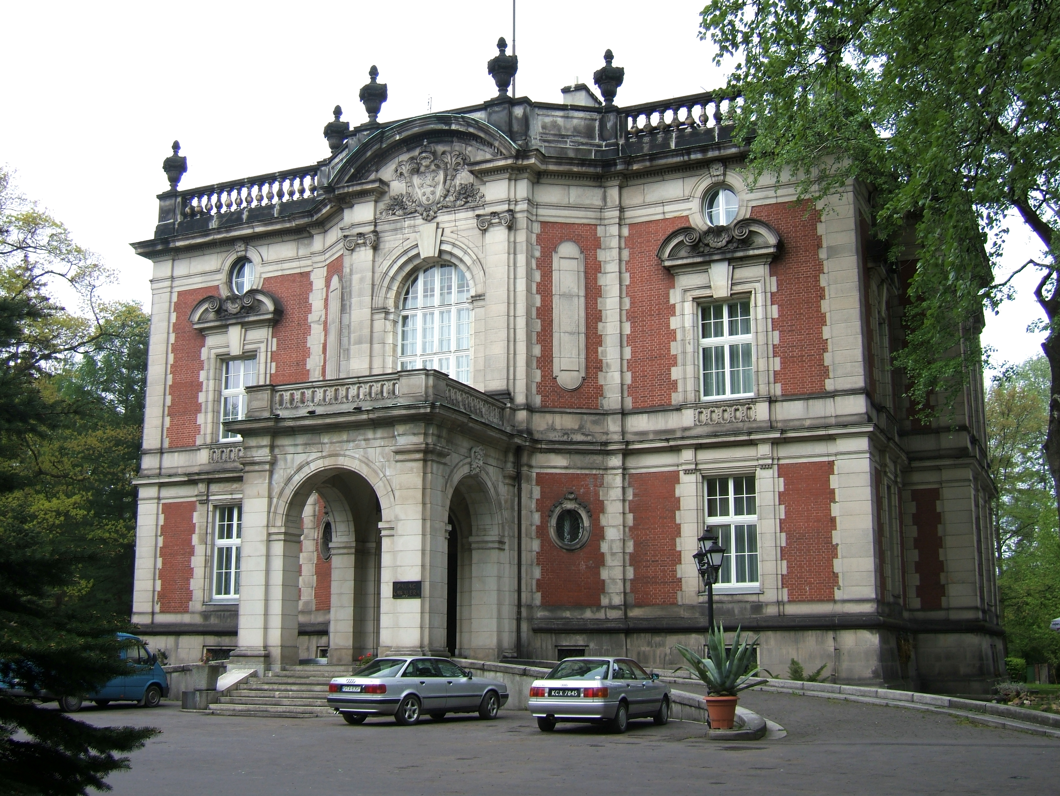 The Kawalera Palace of the Donnersmarck family in Świerklaniec (1903-1906)